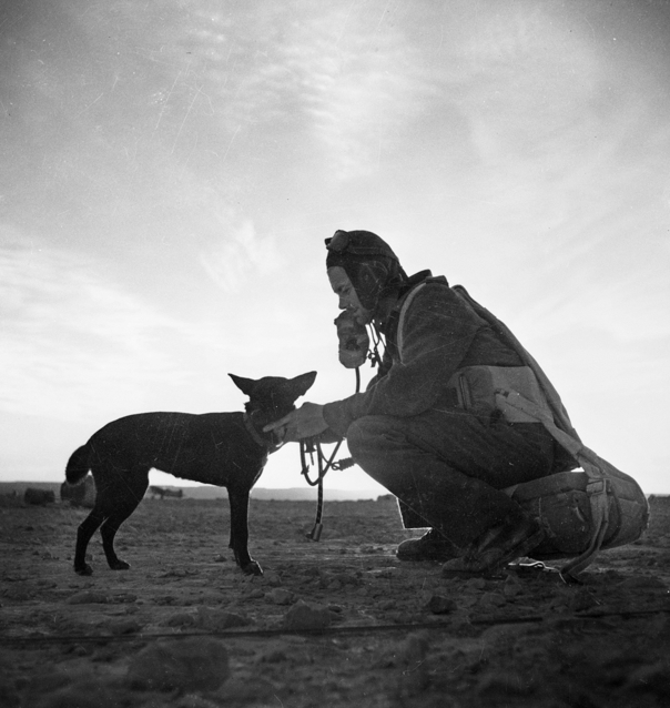 Libya. Flying Officer L. Spence with a dog which attached itself to No. 3 Squadron, RAAF